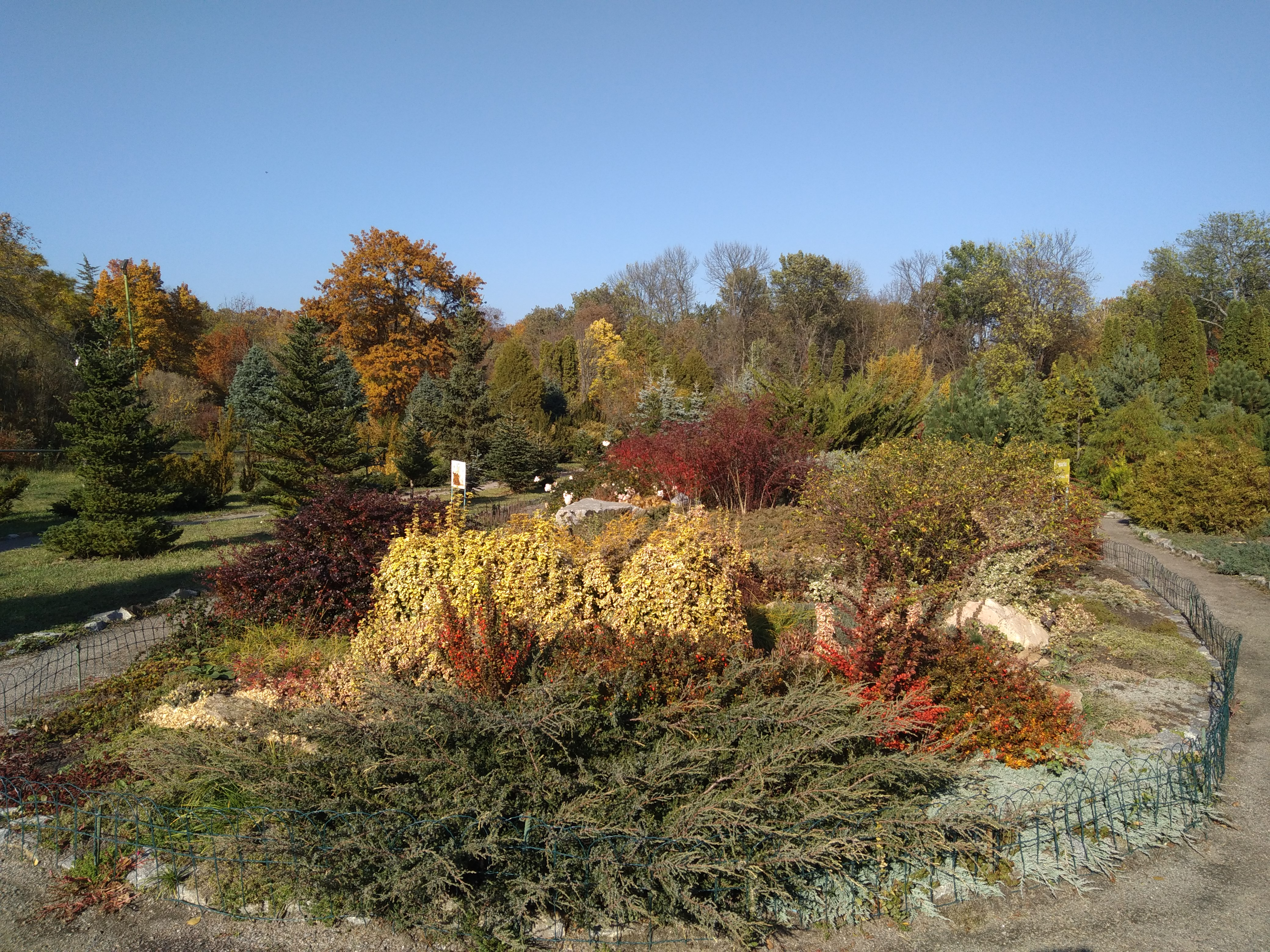 Koniferetum (Alexandria Dendropark, Ukraine)